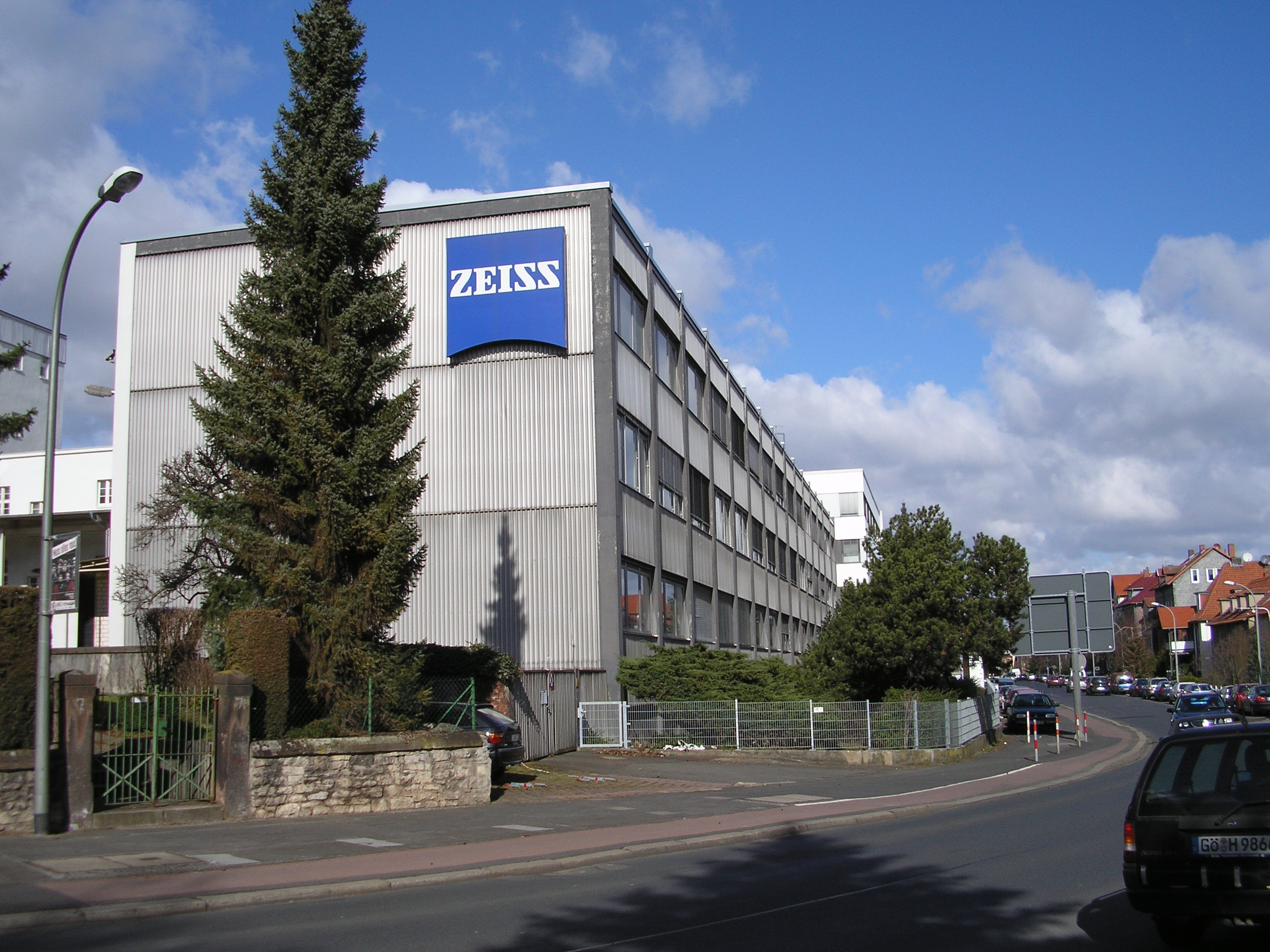 The Manufacturer Zeiss, Göttingen. Captured with my own camera